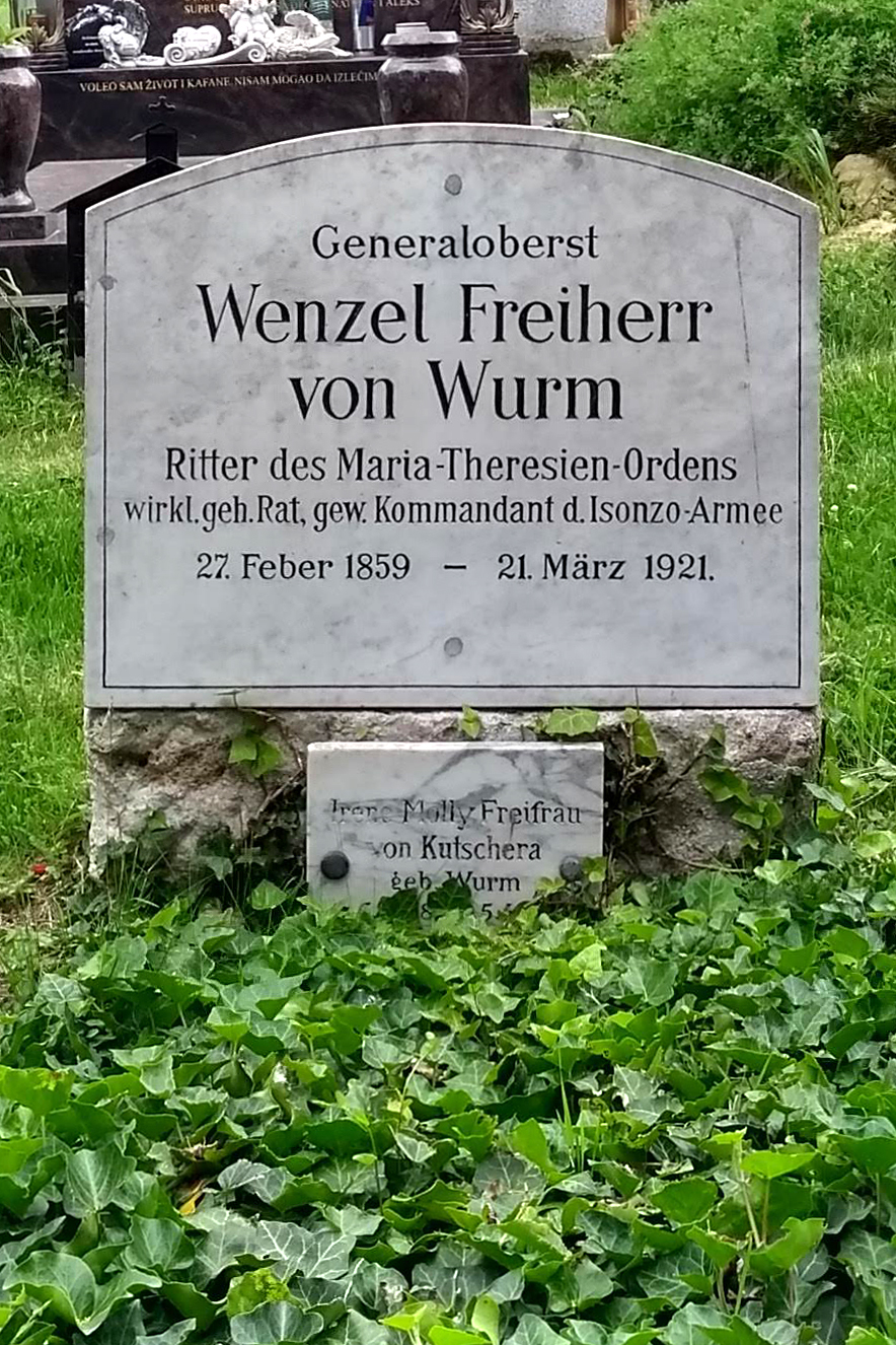 Grave of Wenzel von Wurm (1859–1921), General in the Austro-Hungarian Army, commander of the Isonzo Army, at the Vienna Central Cemetery (gate 2, group 48B, row 3, number 16).